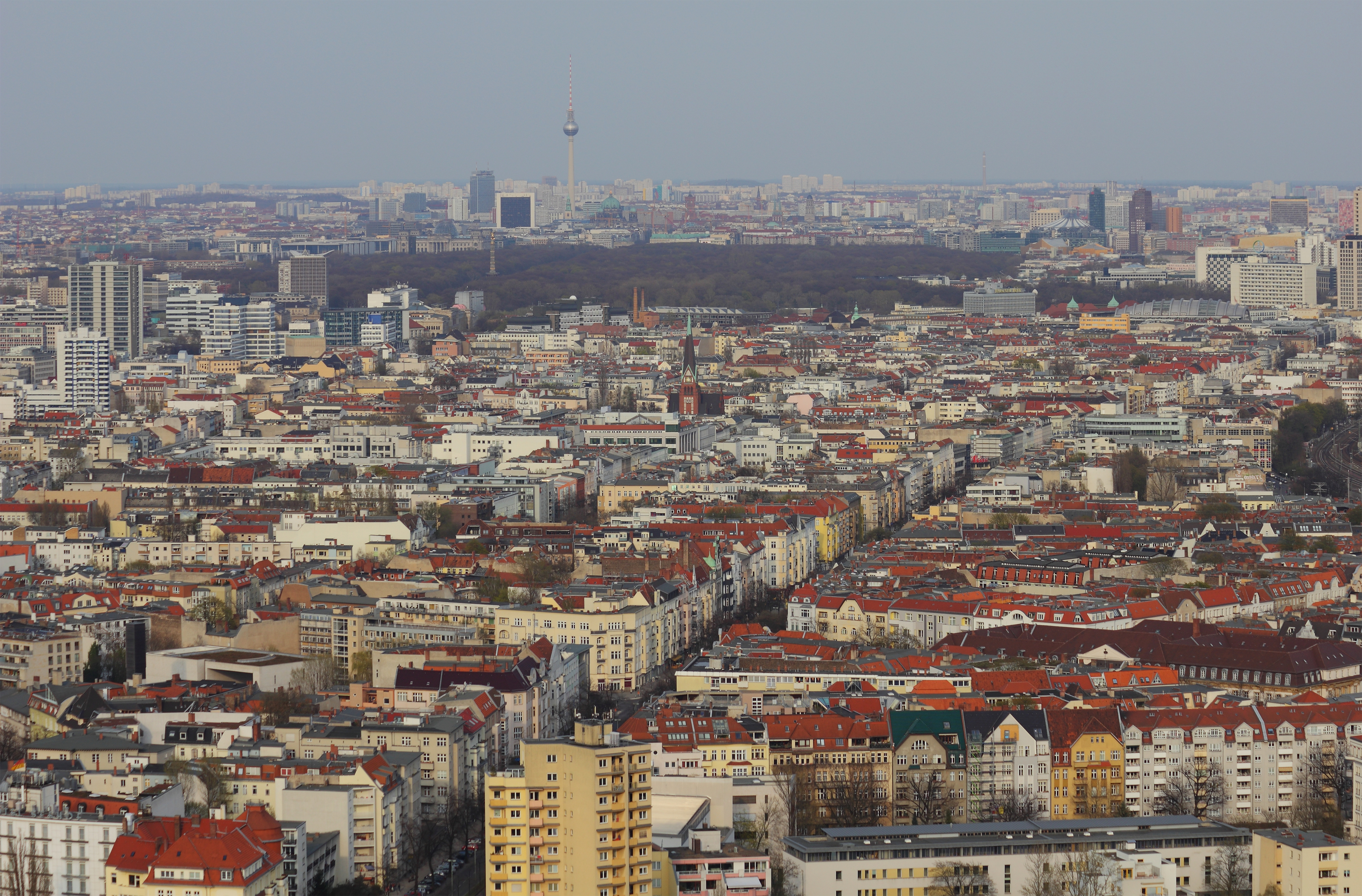 Berlin views from Radio Tower at the Trade Fair.